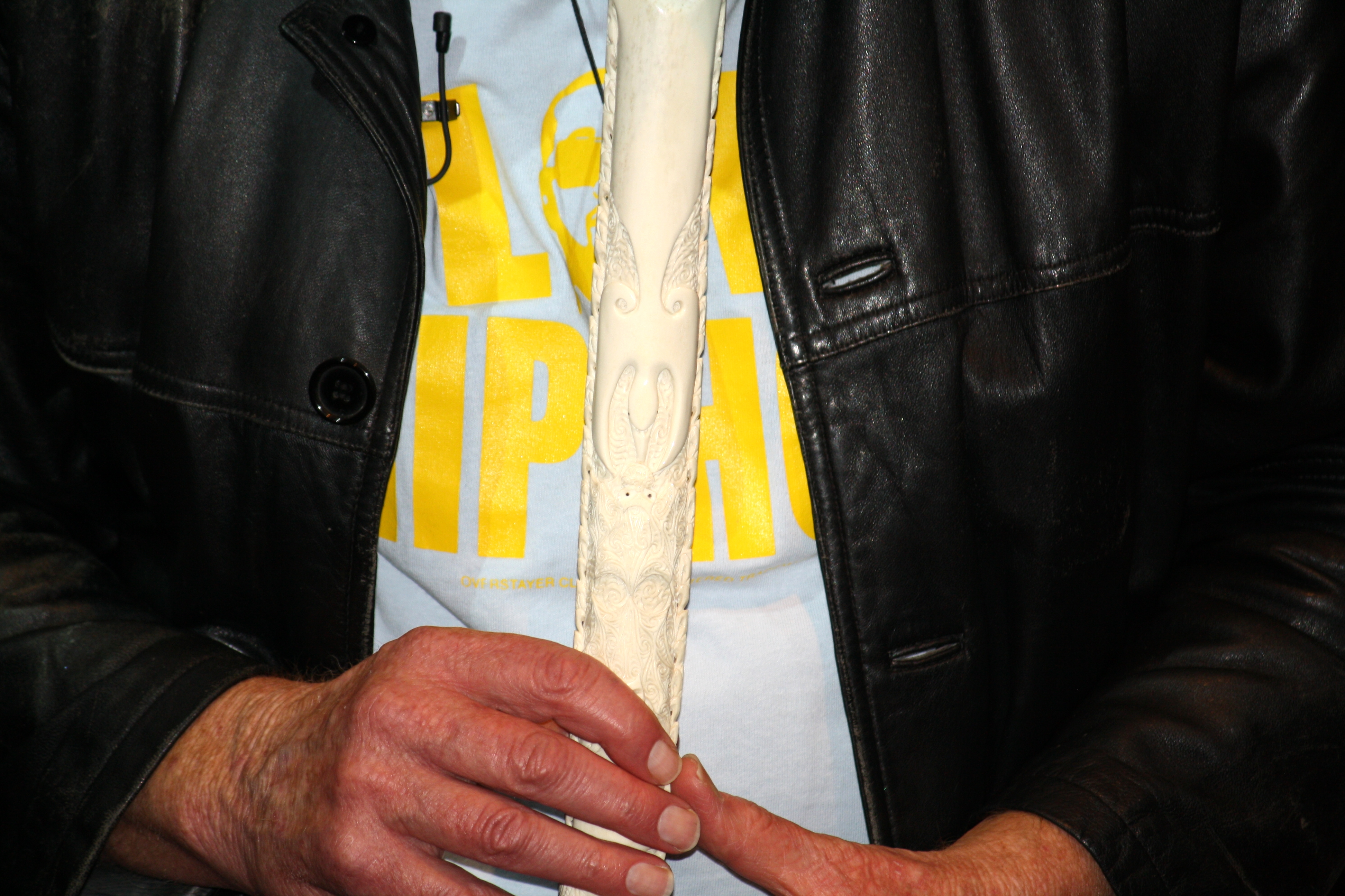 Richard Nunns in 2011 playing a traditional Māori flute. The ornately carved flute resembles a long kōauau, and could possibly be a pōrutu or a whio.